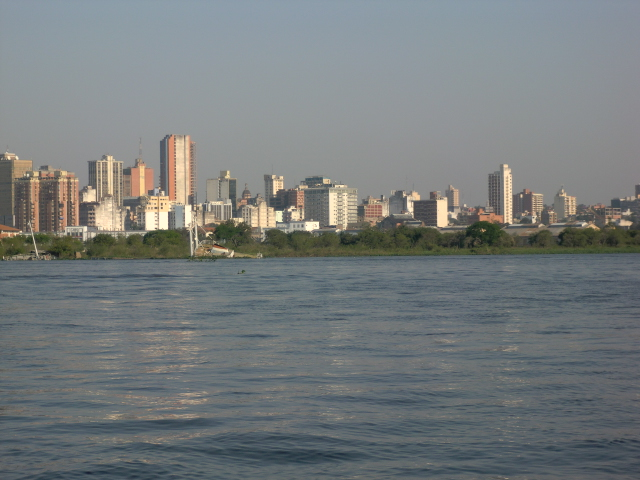 Asunción's Bay